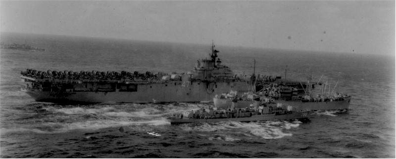 The U.S. aircraft carrier USS Philippine Sea (CV-47) and the destroyer USS Hollister (DD-788) during an underway replenishment from the cargo ship USS Chara (AKA-58), ca. 1950.